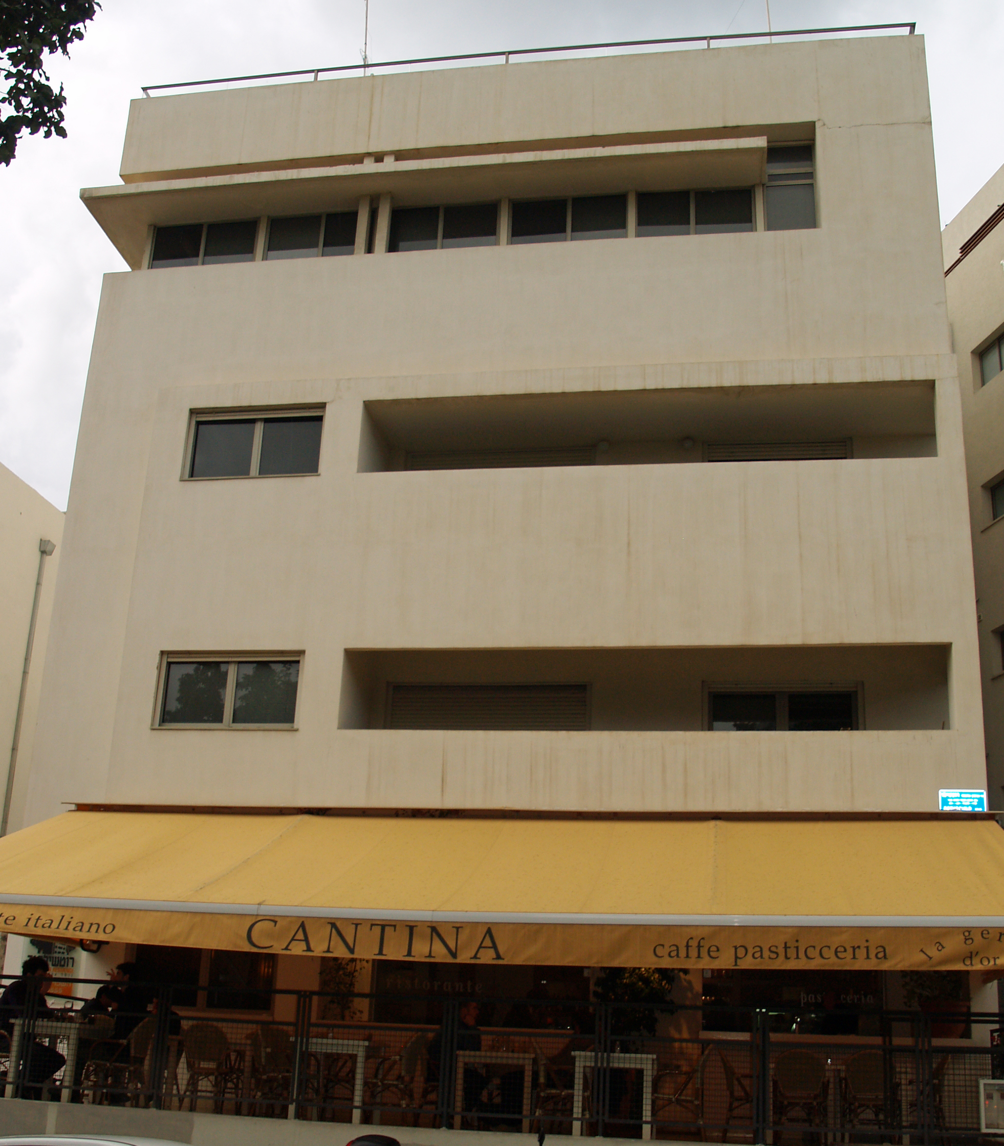 Bauhaus architecture in the White City of Tel Aviv at 71 Rothschild Blvd. Rieger House. Architect: Zeev Rechter, 1934. A three-story residential building, featuring clean, restrained lines.